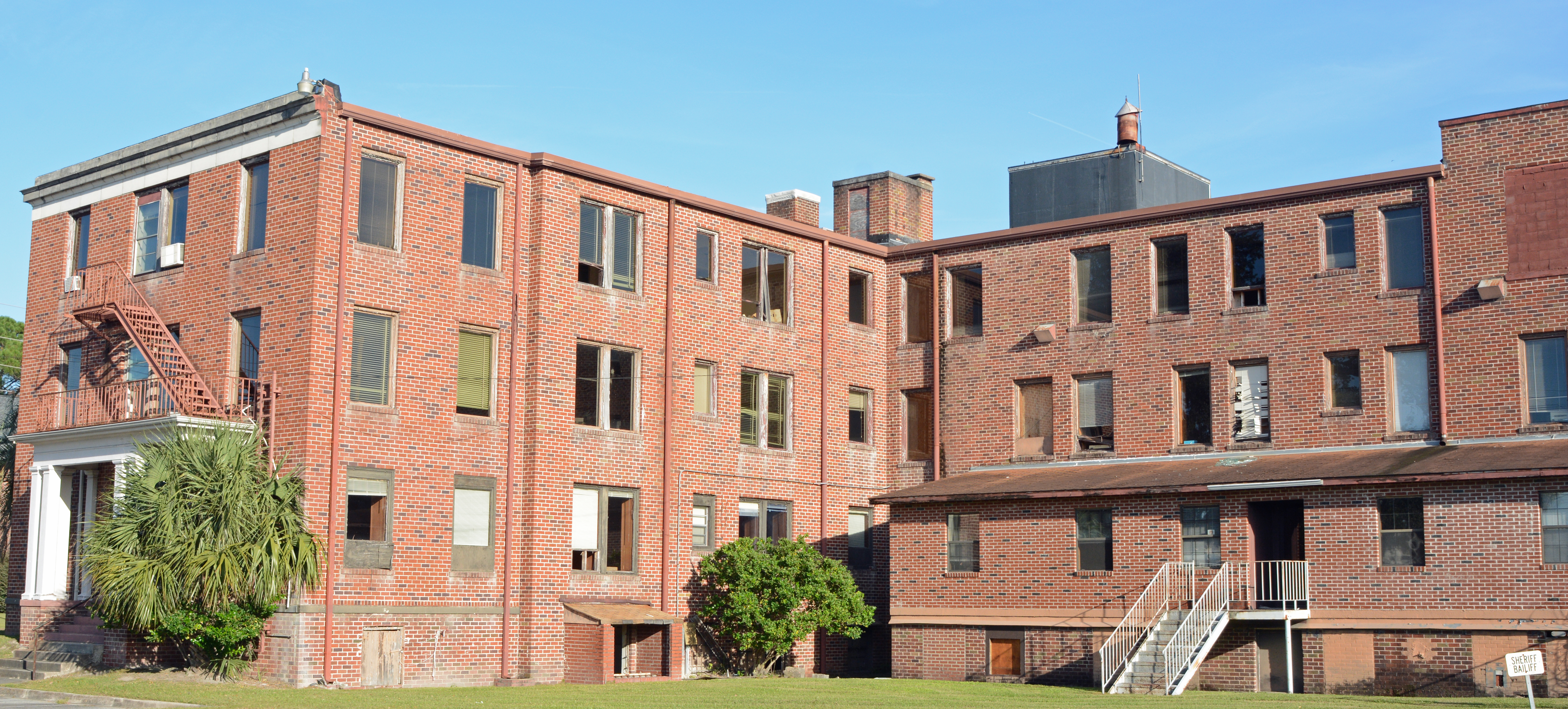 Back of the old hospital in Waycrosss, Georgia, US. After Memorial Hospital was built, the building was used for an annex to the courthouse. Now used by some government offices.